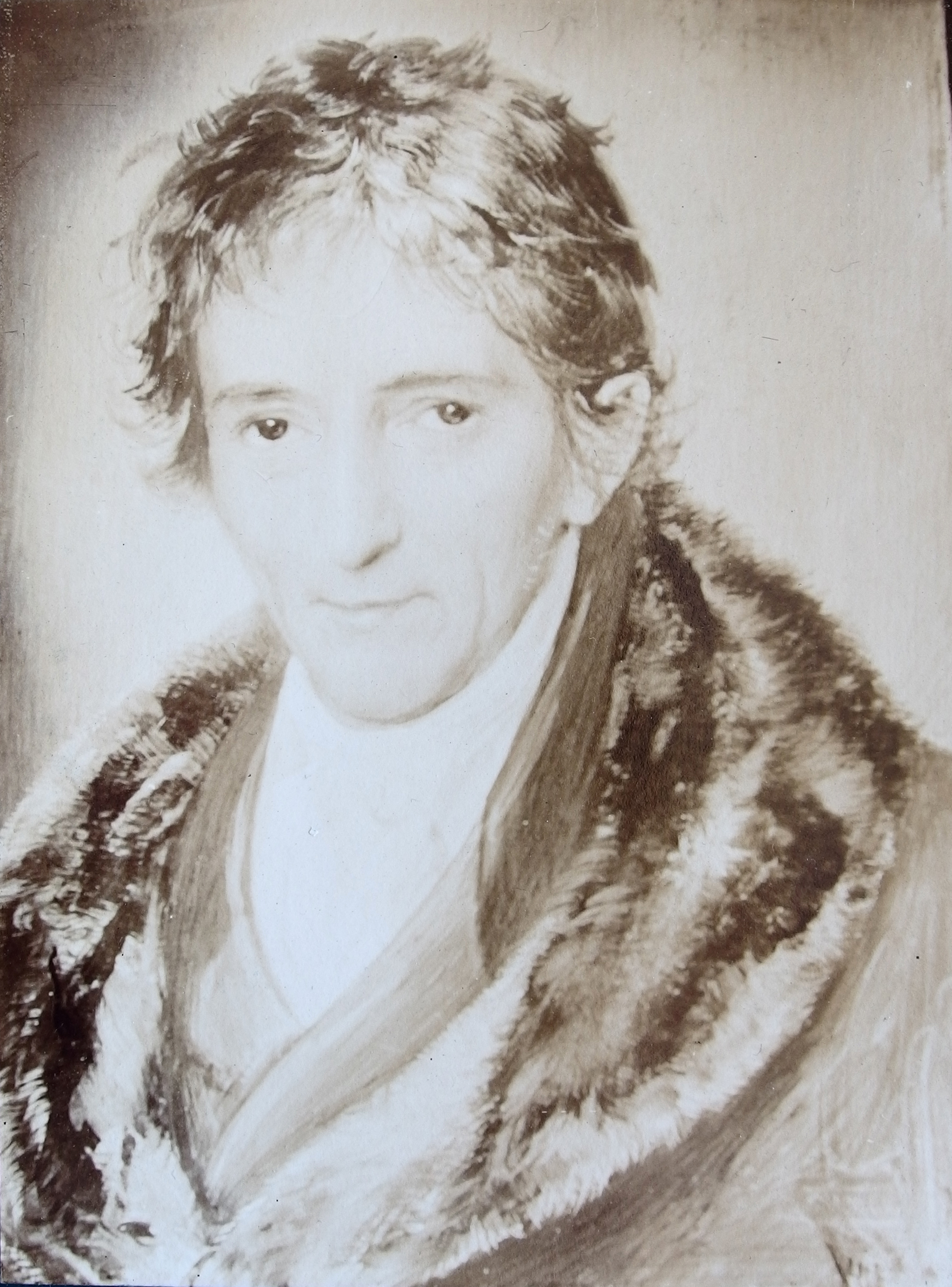 Photo of Portrait of the physician Dr. William Motherby of Königsberg. About 1832. Bust-length. A on ivory, 0,15 h. by 0,11 w.